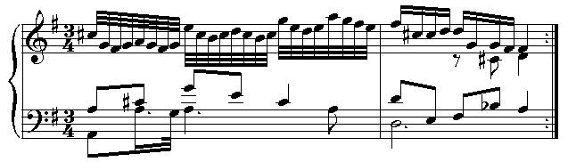 Musical quotation from Goldberg Variations (Variation 13) by Johann Sebastian Bach (1685–1750).